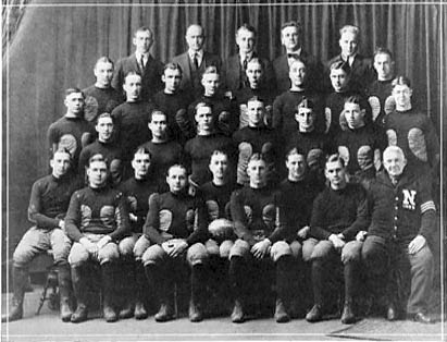 1921 Nebraska Cornhuskers football team photo.